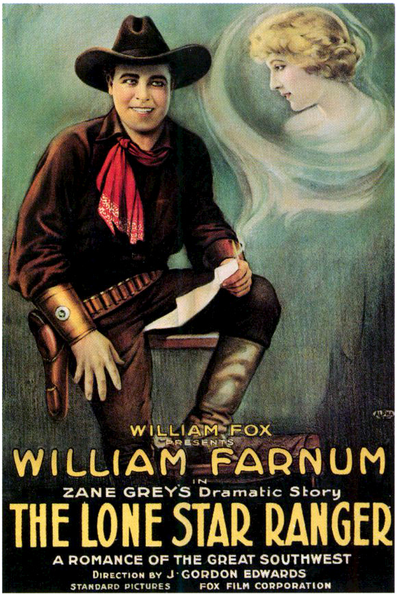 Poster for the American western film The Lone Star Ranger (1919).